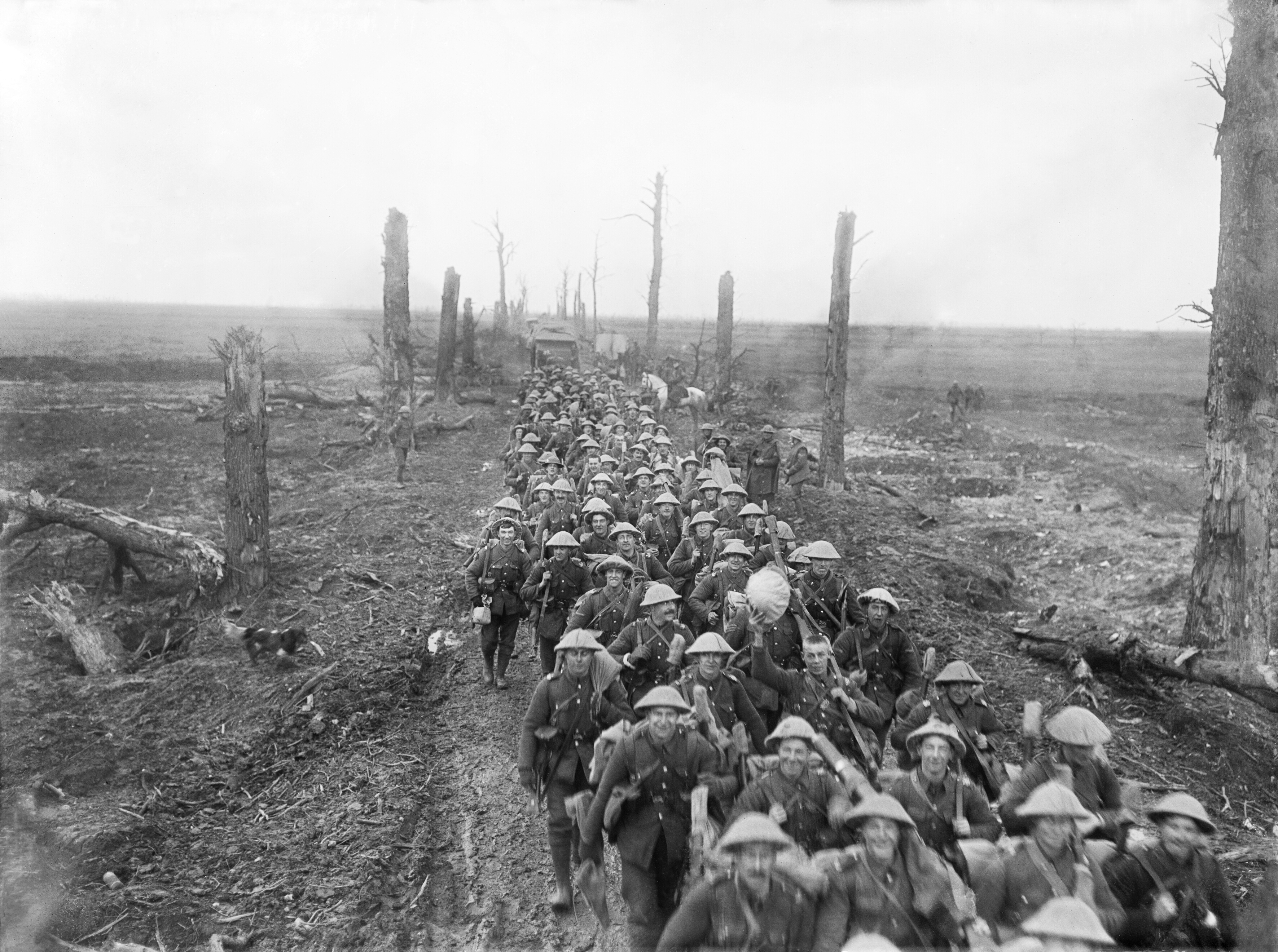 German withdrawal to the Hindenburg Line. Men of the Notts. and Derby Regiment marching along the Amiens-St. Quentin Road, from Foucancourt, near Brie, Somme.